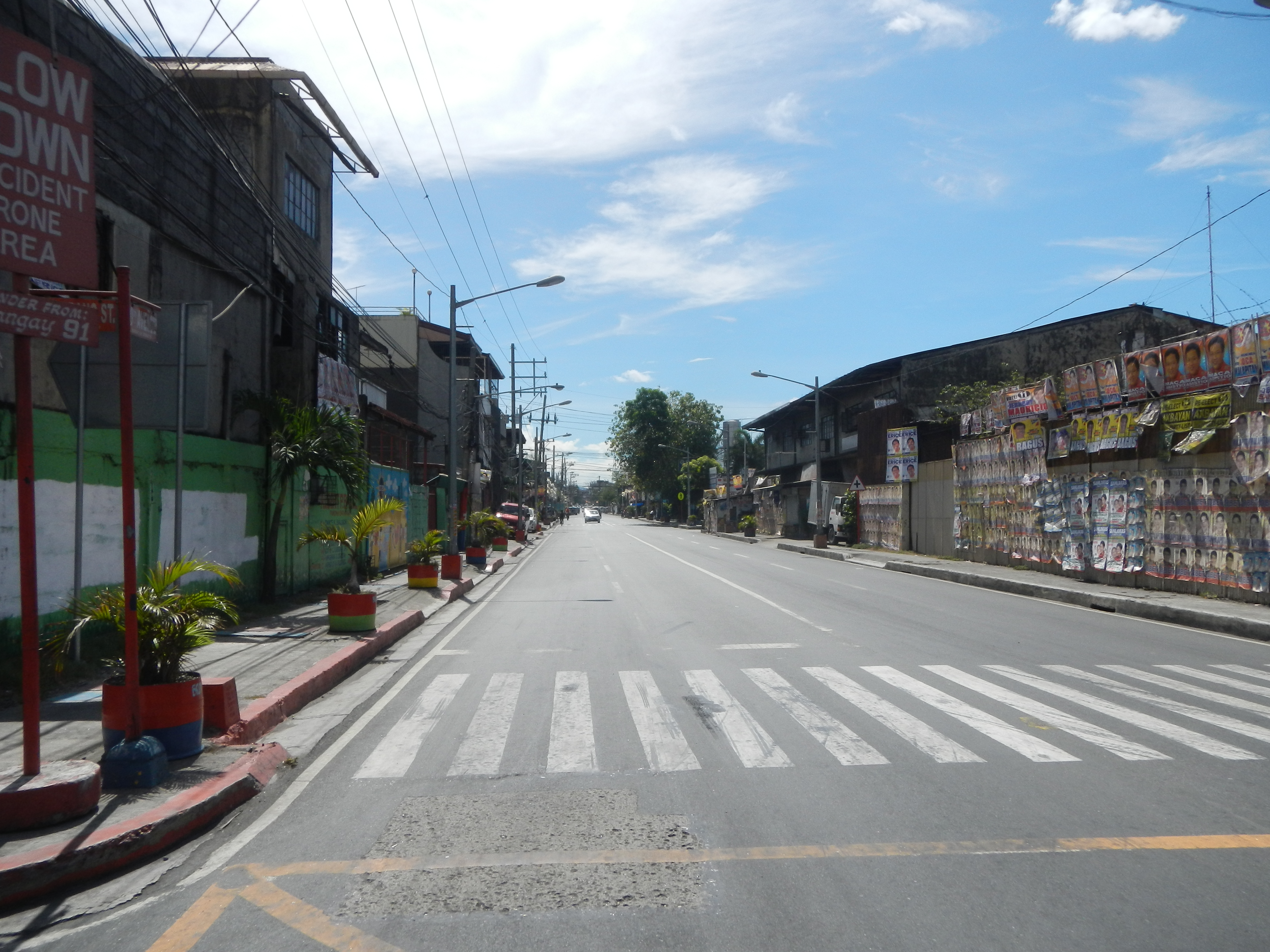 Legislative districts of Caloocan District 2, Barangays of Caloocan Barangay 91, Zone 8, District II, in front of Barangays 68 & 71, Zone 7, 12th Avenue West, District II, 12th Avenue West, Grace Park, 10th, 11th & 12th Avenues, (Caloocan City South), Caloocan City, Buildings in Caloocan City (along the List of roads in Metro Manila, along M. H. Del Pilar Street, 10th Avenue corner Rizal Avenue Extension, Grace Park, beside 11th Avenue, PLDT, Caloocan City Branch, St. Eugene De Mazenod Avenue (formerly 11th Avenue) (Grace Park) to Monumento LRT Station.